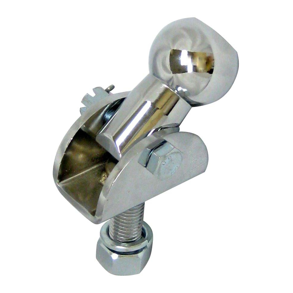 Side angled view of an anti-binding motorcycle trailer hitch assembly, pivot ball hitch (US Patent 7,988,178). The assembly is composed of a base and a trailer ball.